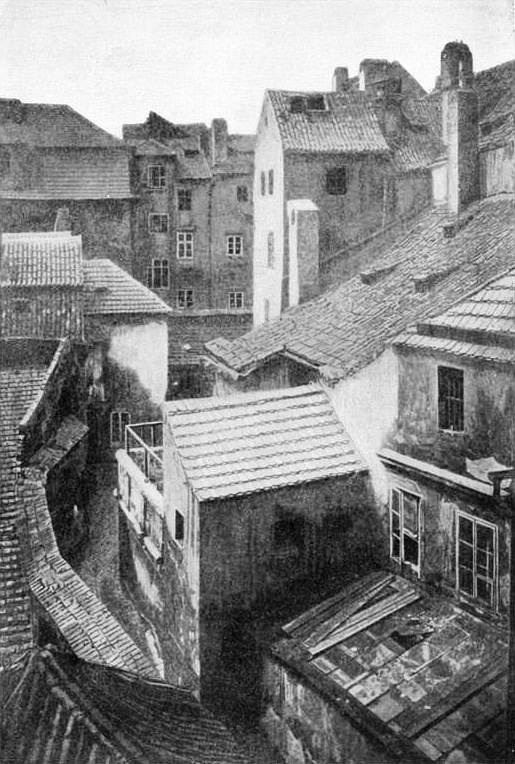 Prague, View of Prague Getho